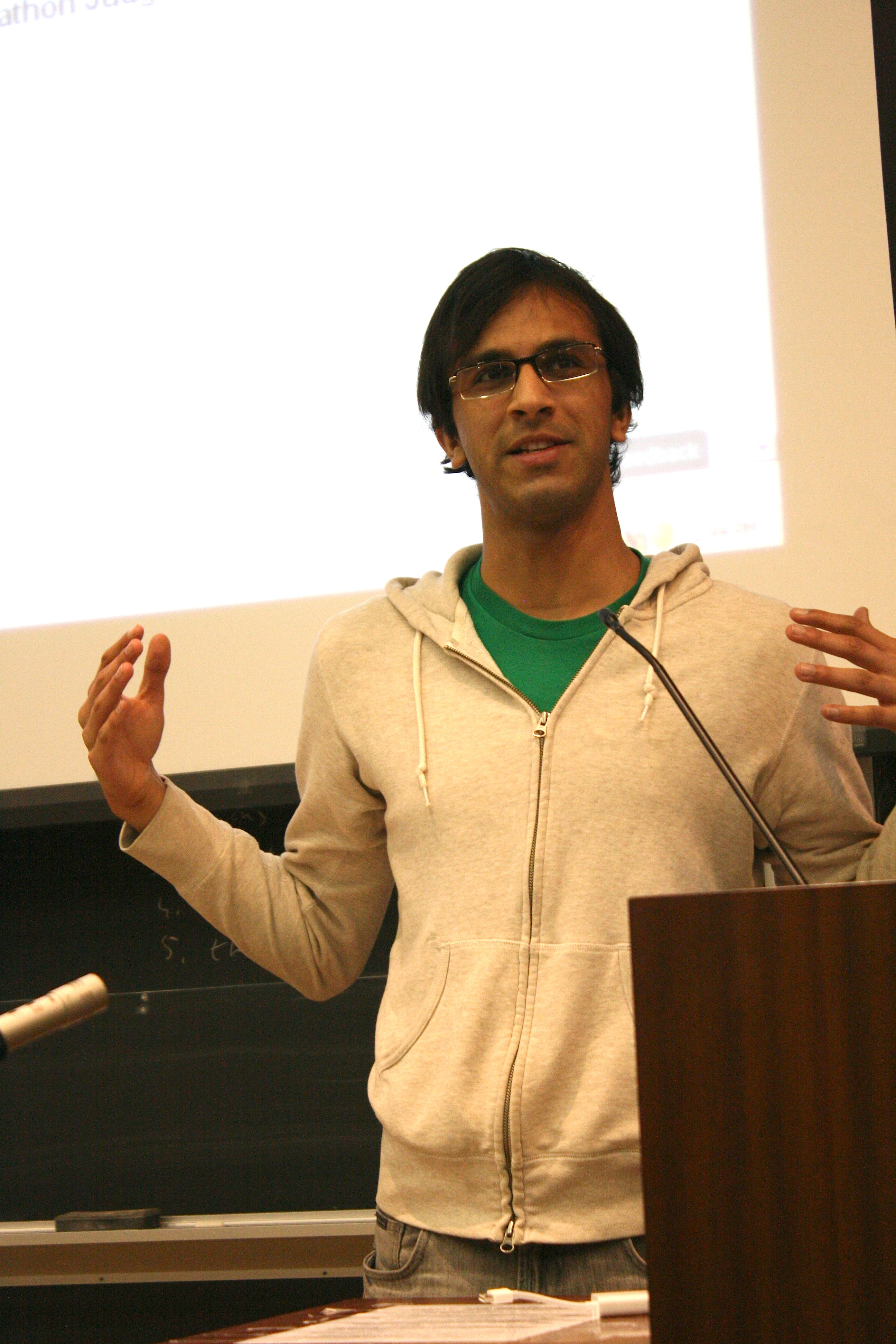 The Spring 2012 Student Hackathon brought in hundreds of students to NYU's Courant Institute for 24 hours of creative hacking on New York City startups' APIs. Selected startups presented their technologies at the beginning of the event, and students formed groups to brainstorm and begin coding on their ideas. Students worked into the night, foregoing sleep to fulfill their visions. On Sunday afternoon students presented their projects to an audience including a judging panel, which selected the final winners.